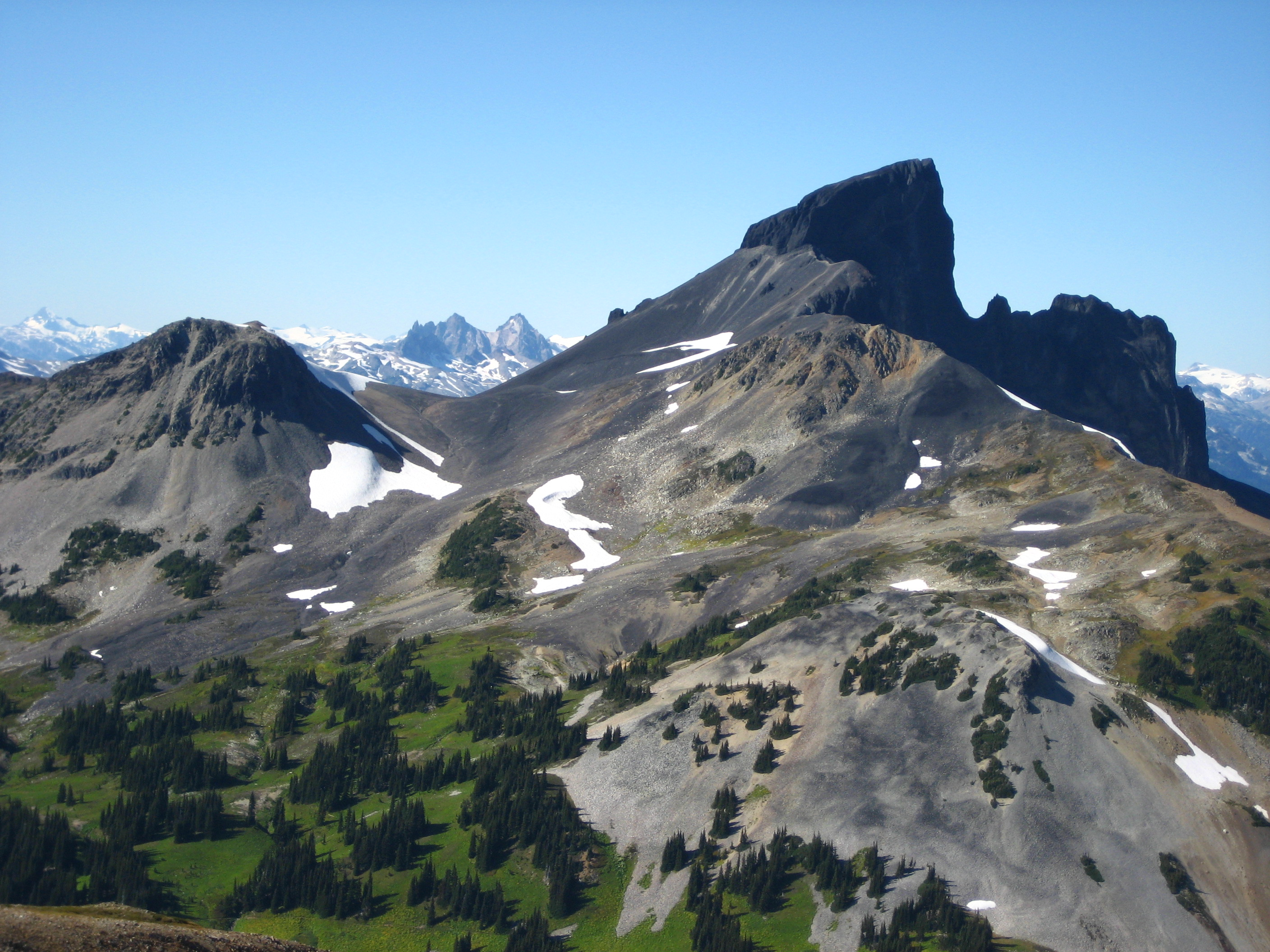 Black Tusk, Garibaldi Provincial Park, British Columbia, Canada. September 2007